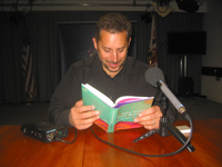 Daniyal_Mueenuddin. From the description on the US Embassy London website: "Pakistani-American writer Daniyal Mueenuddin reads an excerpt from his short story “Nawabdin Electrician”. The U.S. Embassy brought Daniyal to London and Birmingham to attend the Asia House Festival of Asian Literature and to speak with students, writers, and artists about his new book, In Other Rooms, Other Wonders."